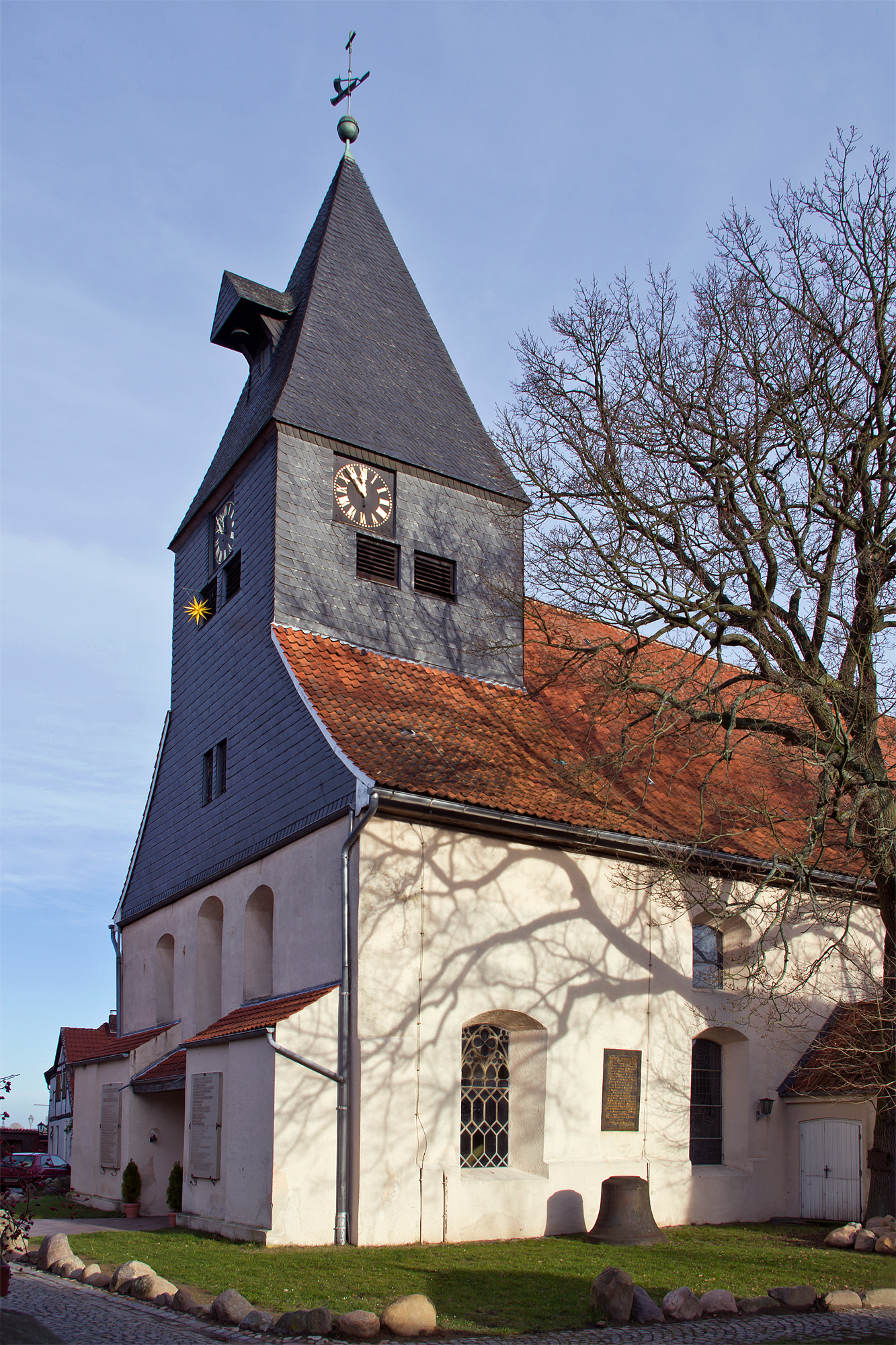 Church of Hitzacker (district Lüchow-Dannenberg, northern Germany).